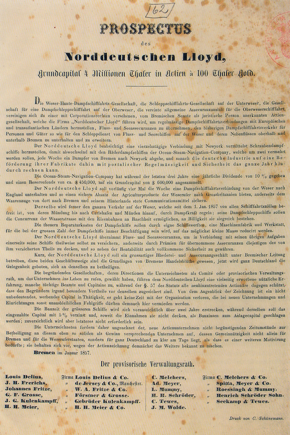 Prospectus des Norddeutschen Lloyd (“Prospectus of the North German Lloyd“), document from year 1857 proclaiming the formation of the shipping company.